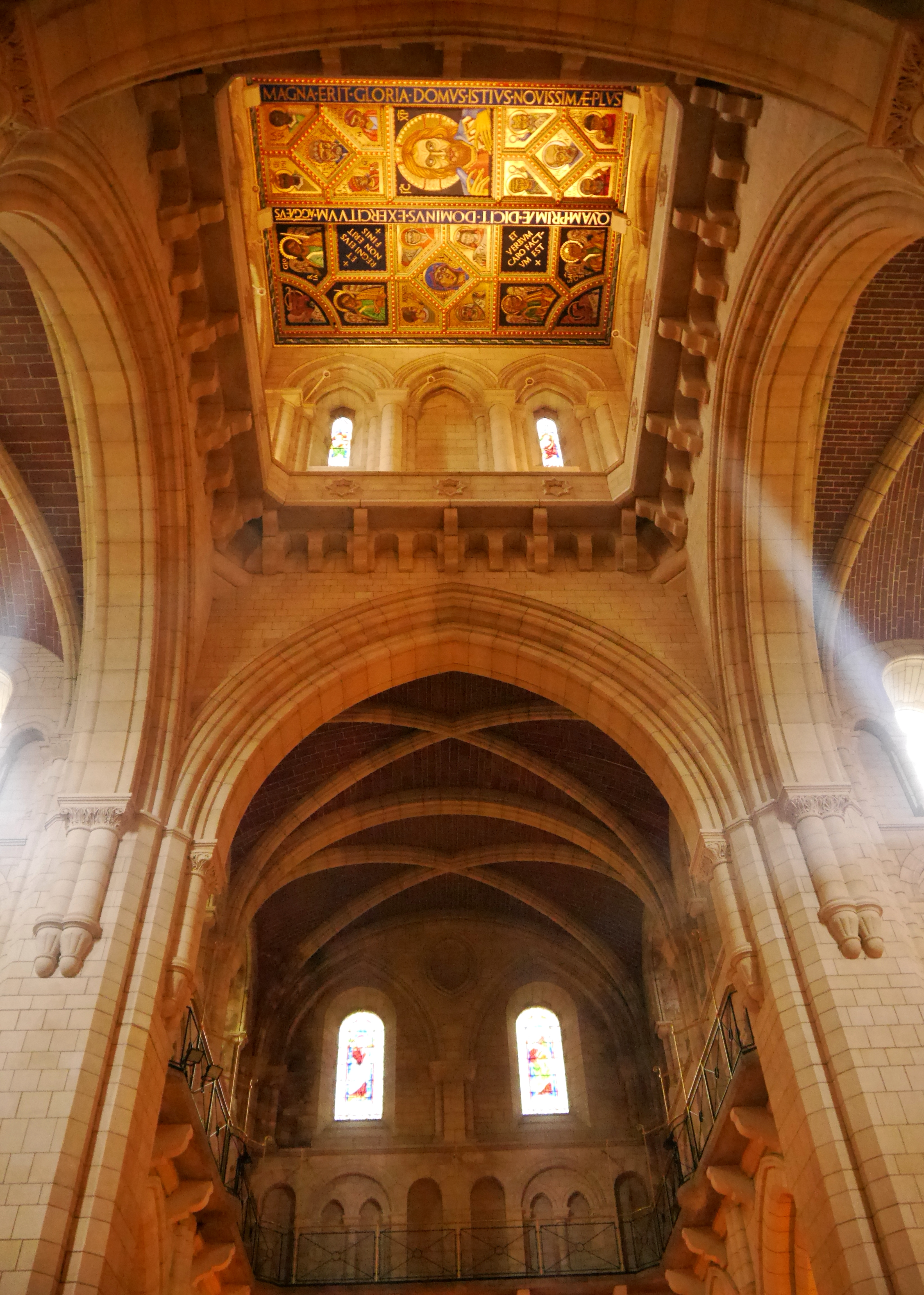 Buckfast Abbey, Main Block Wikidata has entry Q17535868 with data related to this item.